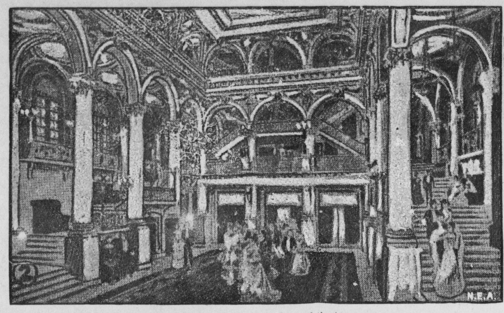 Grand foyer of the Iroquois Theatre, Chicago, as it appeared prior to being destroyed in the Iroquois Theatre fire on the night of December 30, 1903.